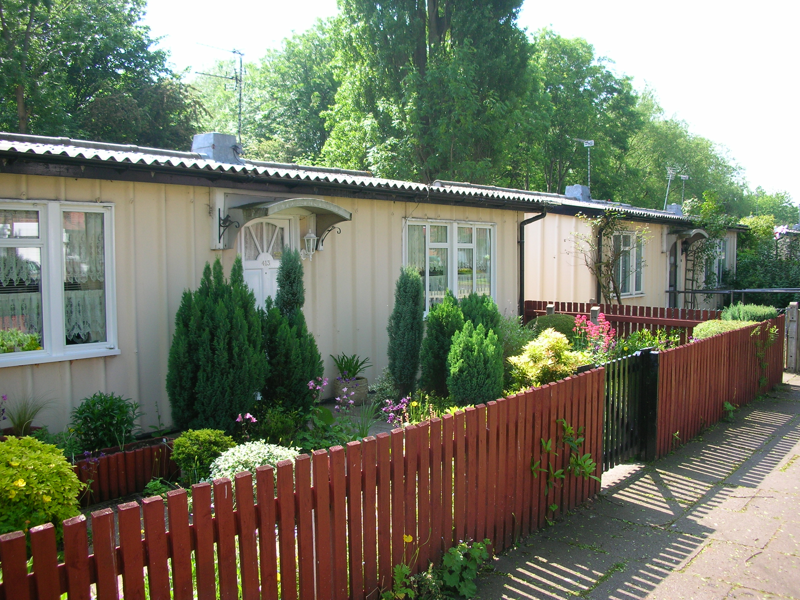 Phoenix prefabs, Wake Green Road, Birmingham, England. Constructed c 1945. Still occupied.